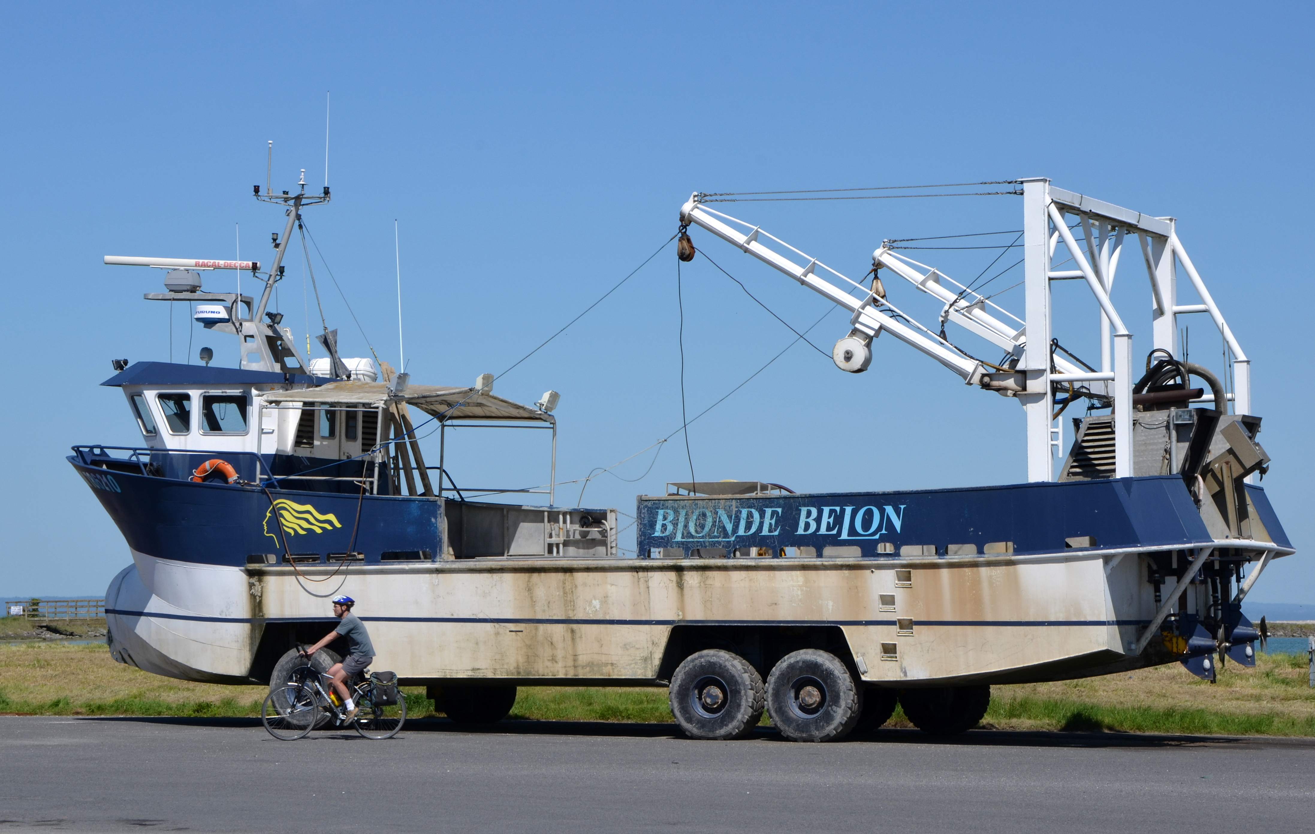 One of the amphibious vehicles used by the mussel grower of the Baie du mont Saint-Michel, Ille-et-Vilaine, France.